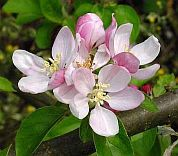 Rescaled version of a photo for demonstration of an artistic effect.